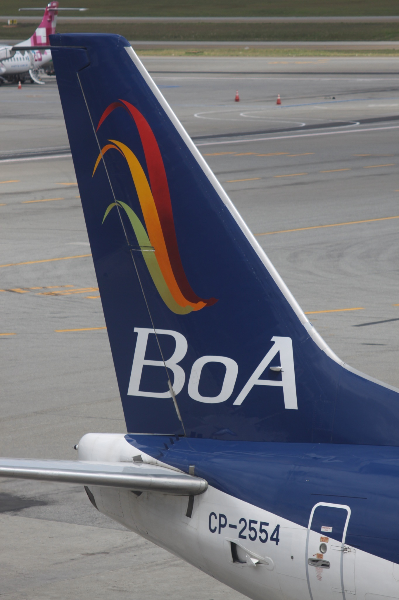 At Sao Paulo Guarulhos